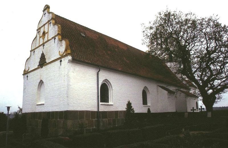 Sandholts Lyndelse Kirke (church) from apr. 1100.